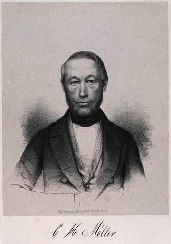 Christian Hansen Møller (1804-1888), Danish farmer and politician